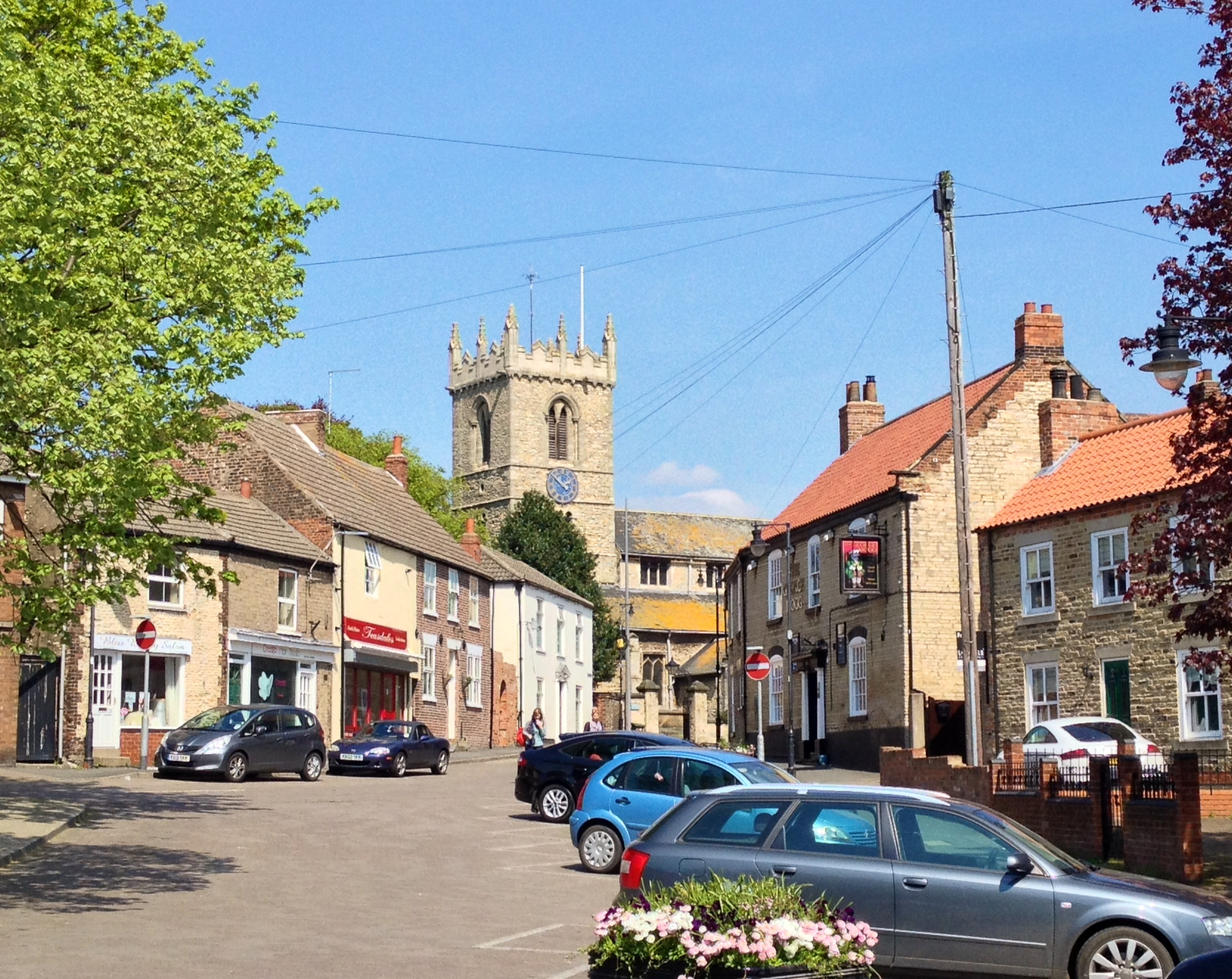 Winterton Town Centre Spring 2014